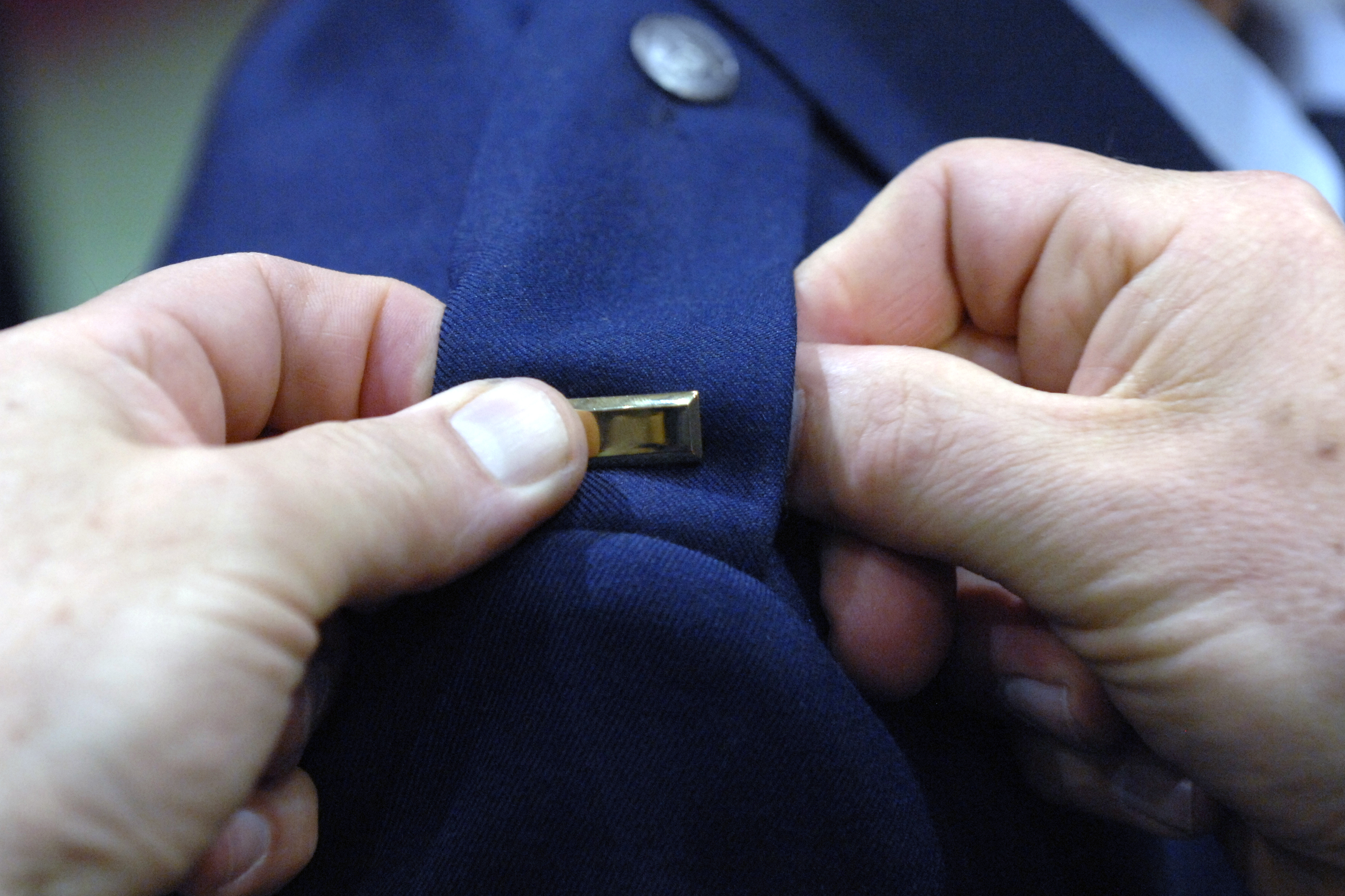 A parent pins on second lieutenant rank on a newly commissioned Air Force officer during the Norwich University graduation ceremony in Northfield, Vt., May 10, 2008. Defense Dept. photo by U.S. Air Force Tech. Sgt. Adam M. Stump